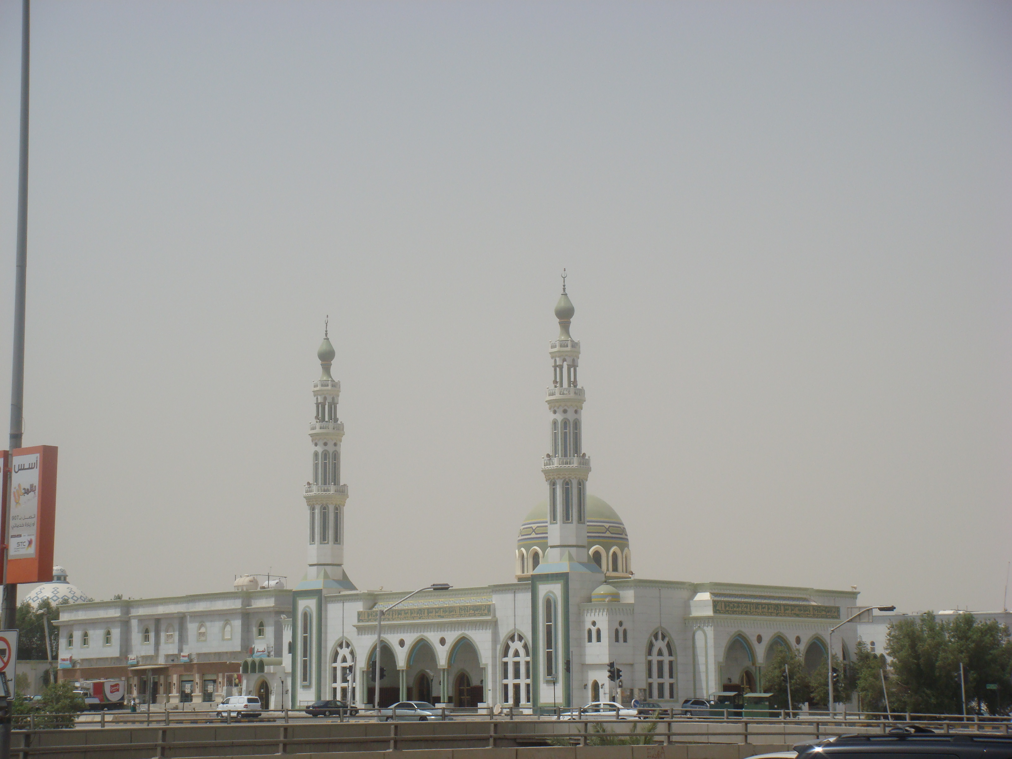 Alowidah Mosque, Riyadh